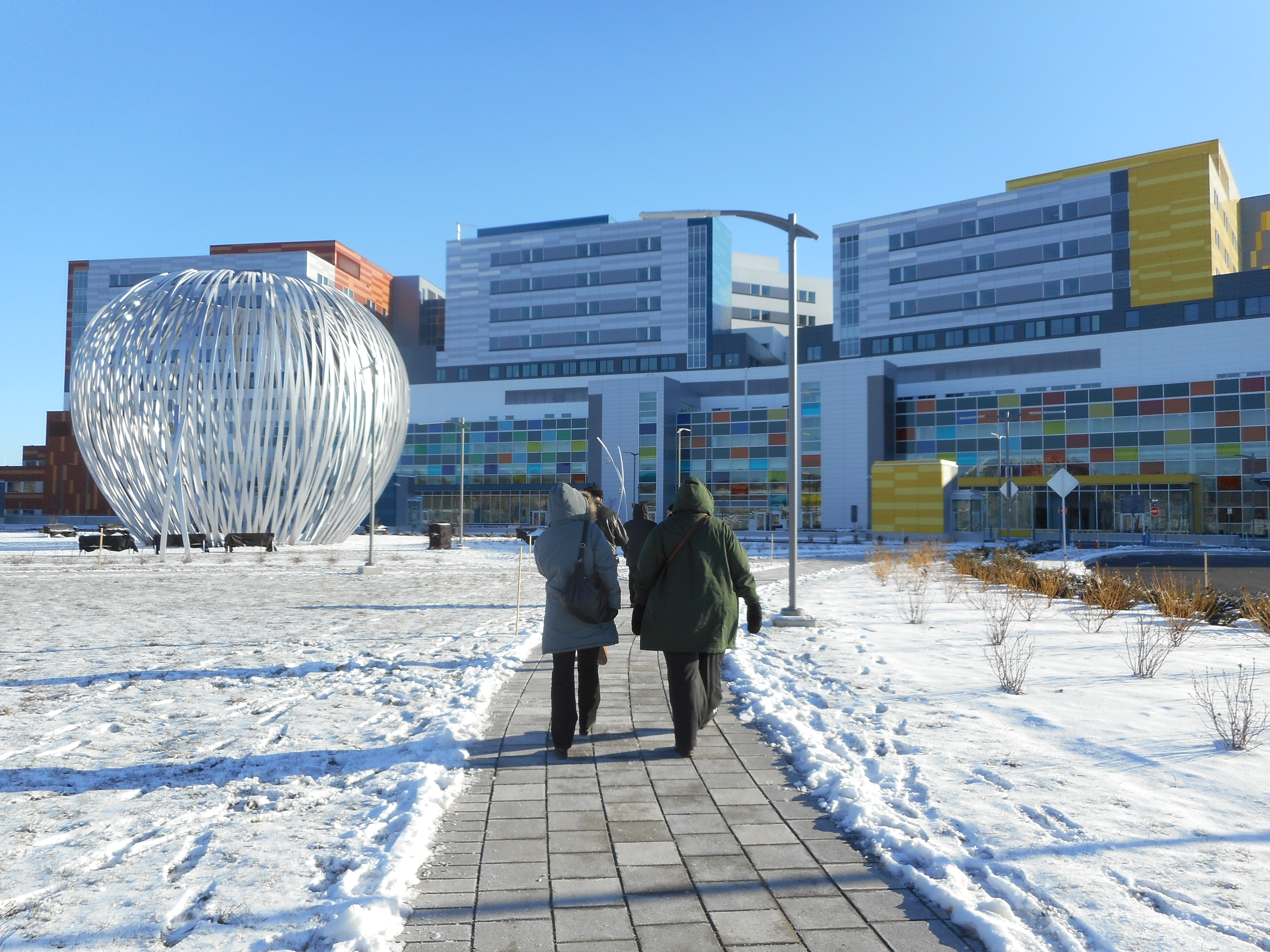 McGill University Health Centre, MUHC's Glen site